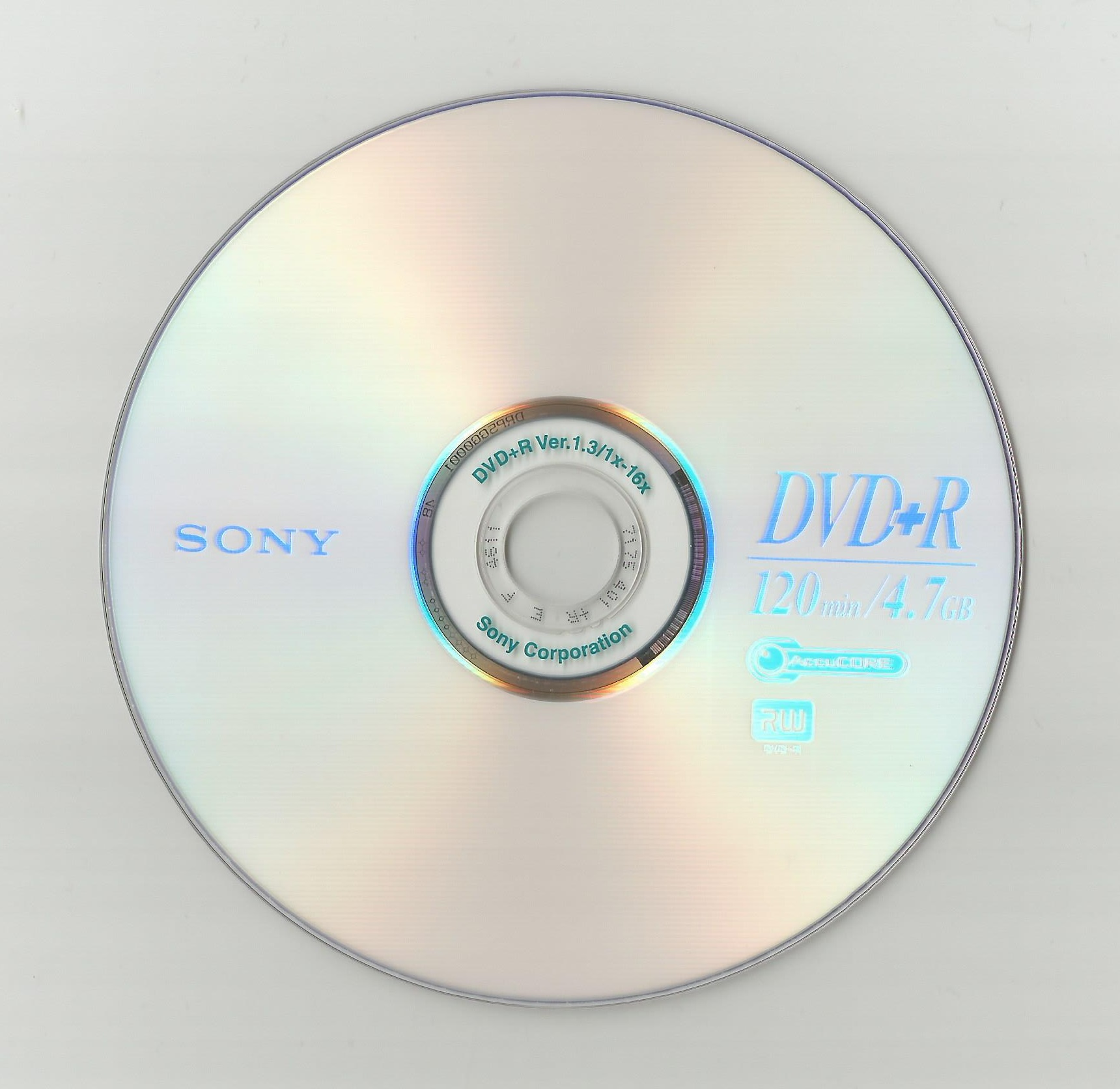 This is an 4.7 GB optical disk (DVD) front view, made by SONY Inc.